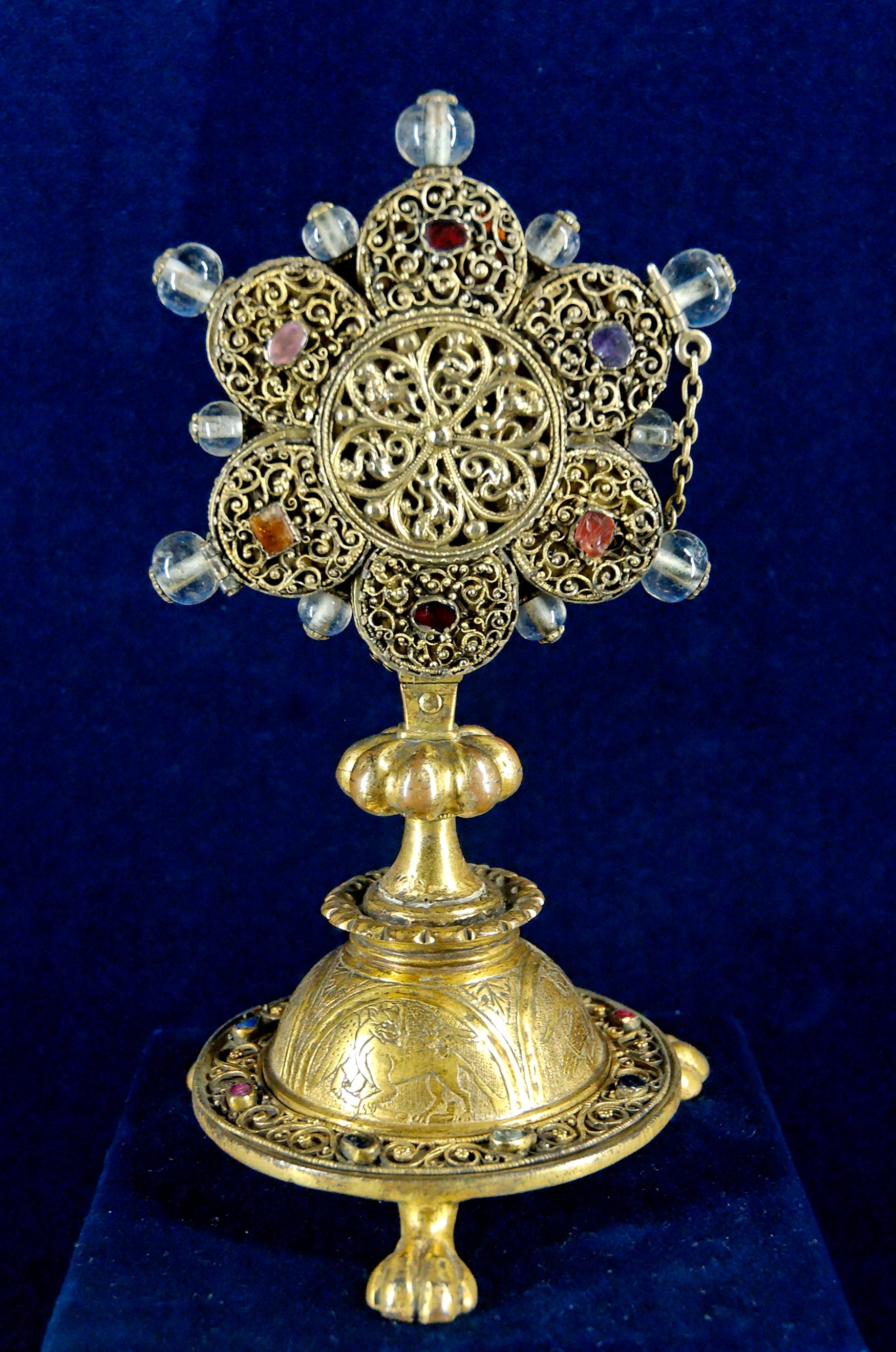 Reliquary from the collegiate church of Our Lady of Termonde, Flanders.